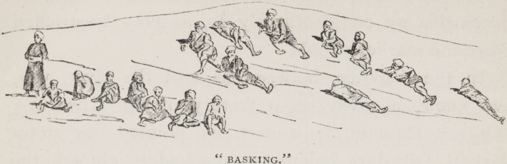 Drawing of a large group of people lying on the ground.